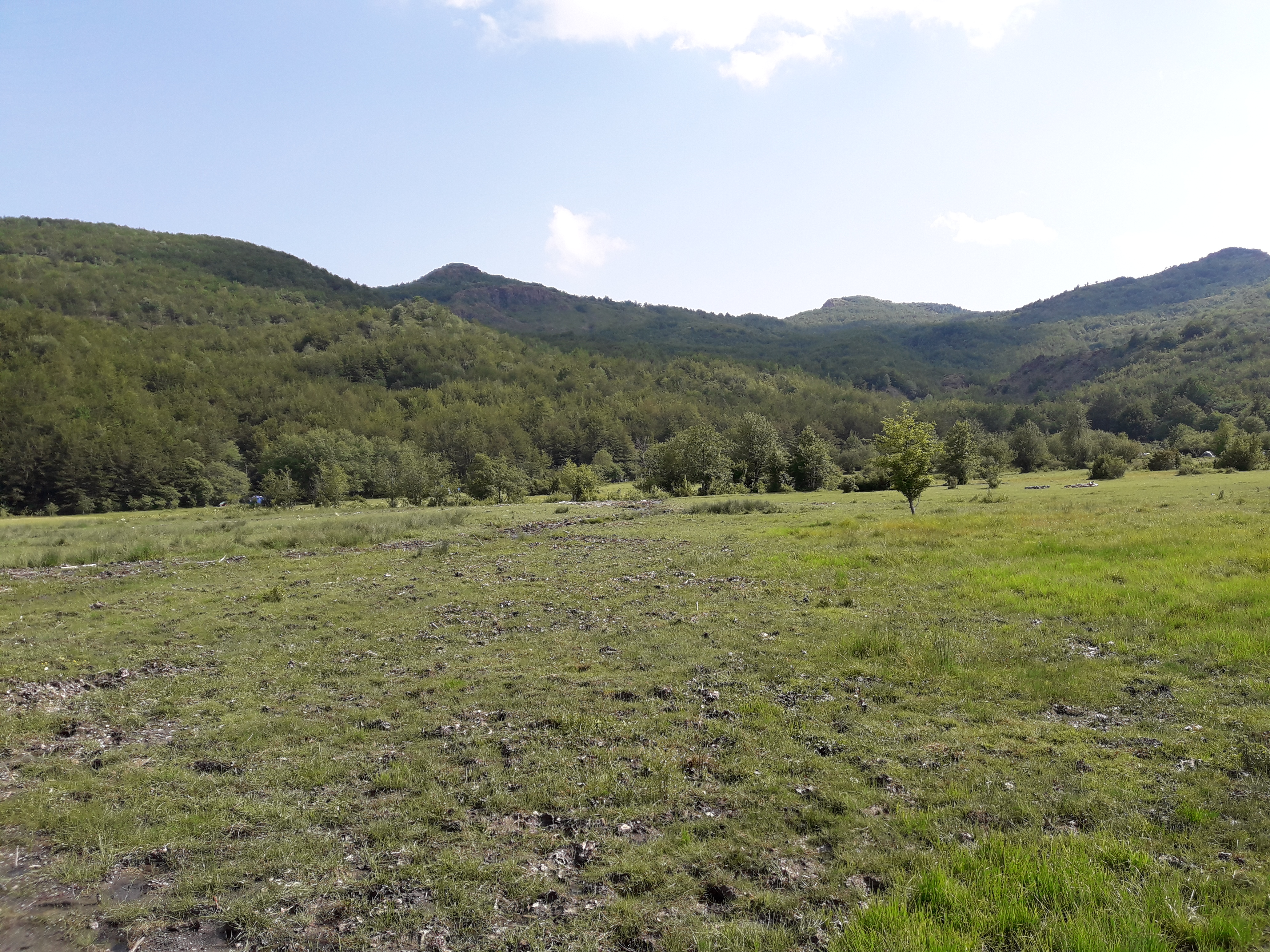 The plateau of Lago Moo, municipality of Ferriere, Piacenza, Italy